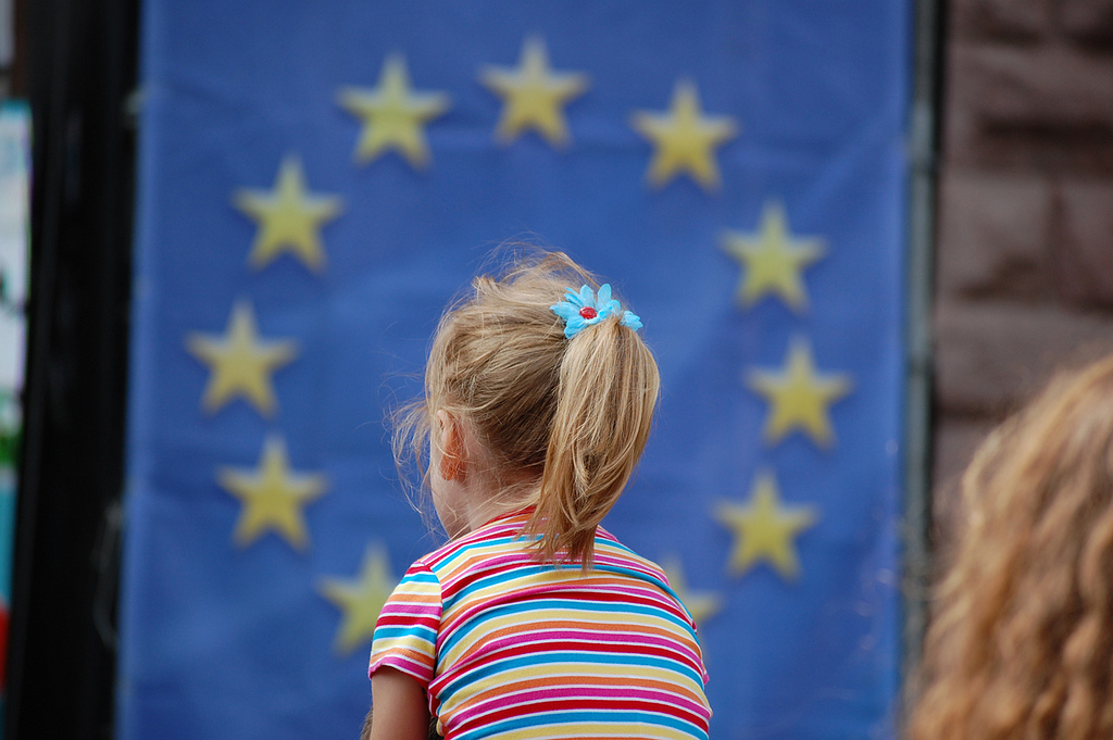 Europe Day celebration (on 22 December?): girl on Khreshchatyk (Kyiv, Ukraine).